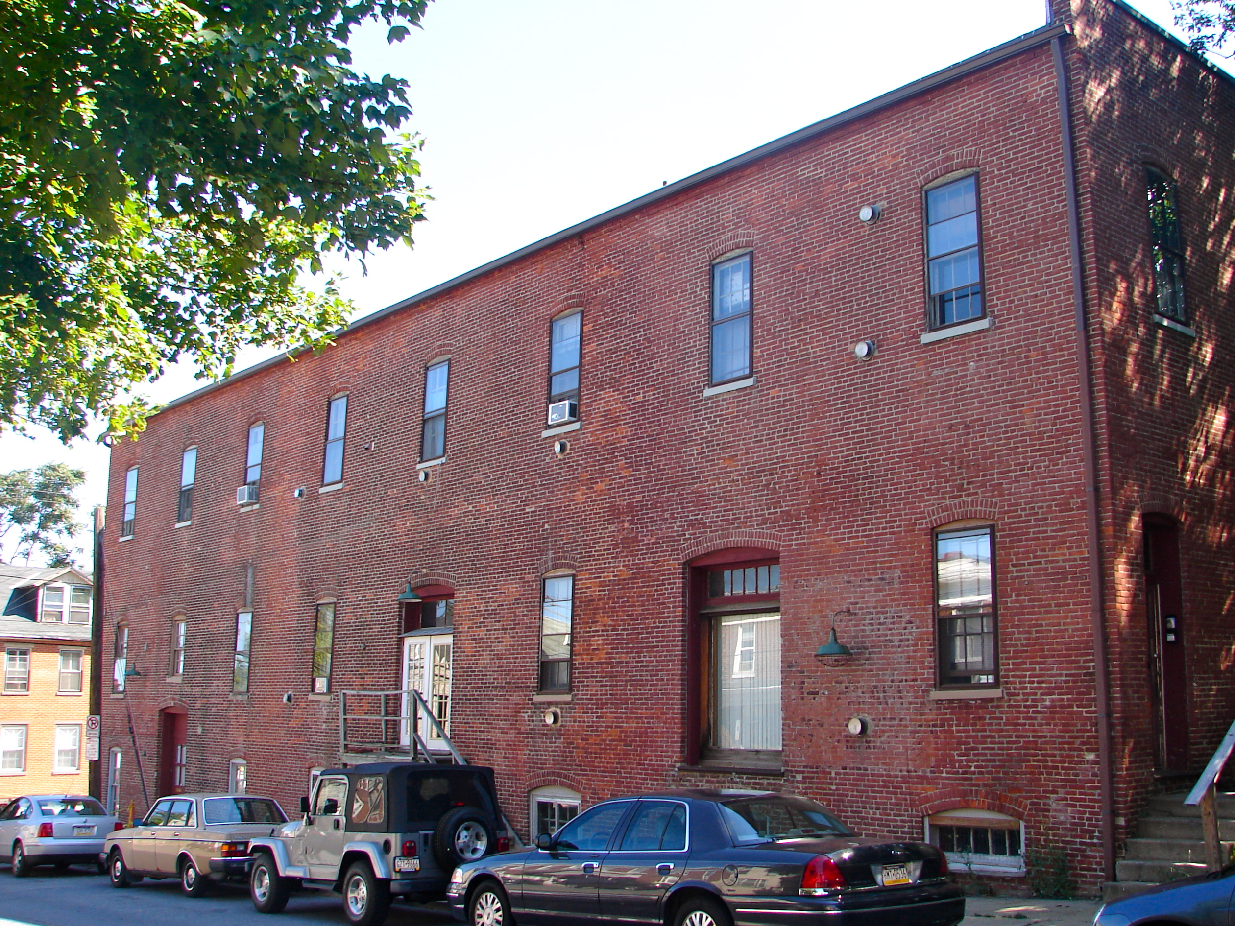 L. G. Sherman Tobacco Warehouse on the NRHP since September 21, 1990. At 602 East Marion Street, in the East Side neighborhood of Lancaster, Pennsylvania. Part of the multiple listing of tobacco buildings in Lancaster